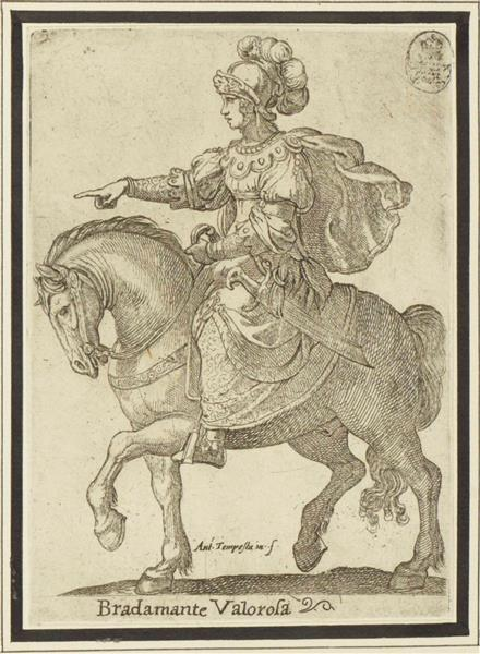 Bradamante, one of the main characters in Ludovico Ariosto's Orlando Furioso.